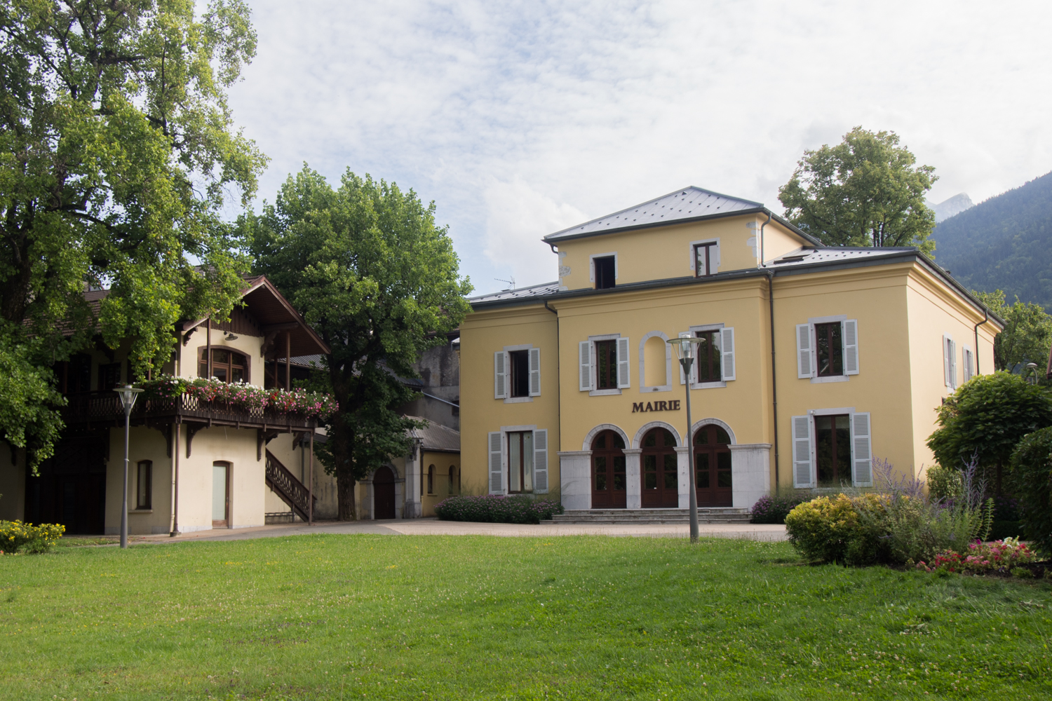 Sight of the town hall building of Faverges (Haute-Savoie, France) from the parc Simon Berger park.